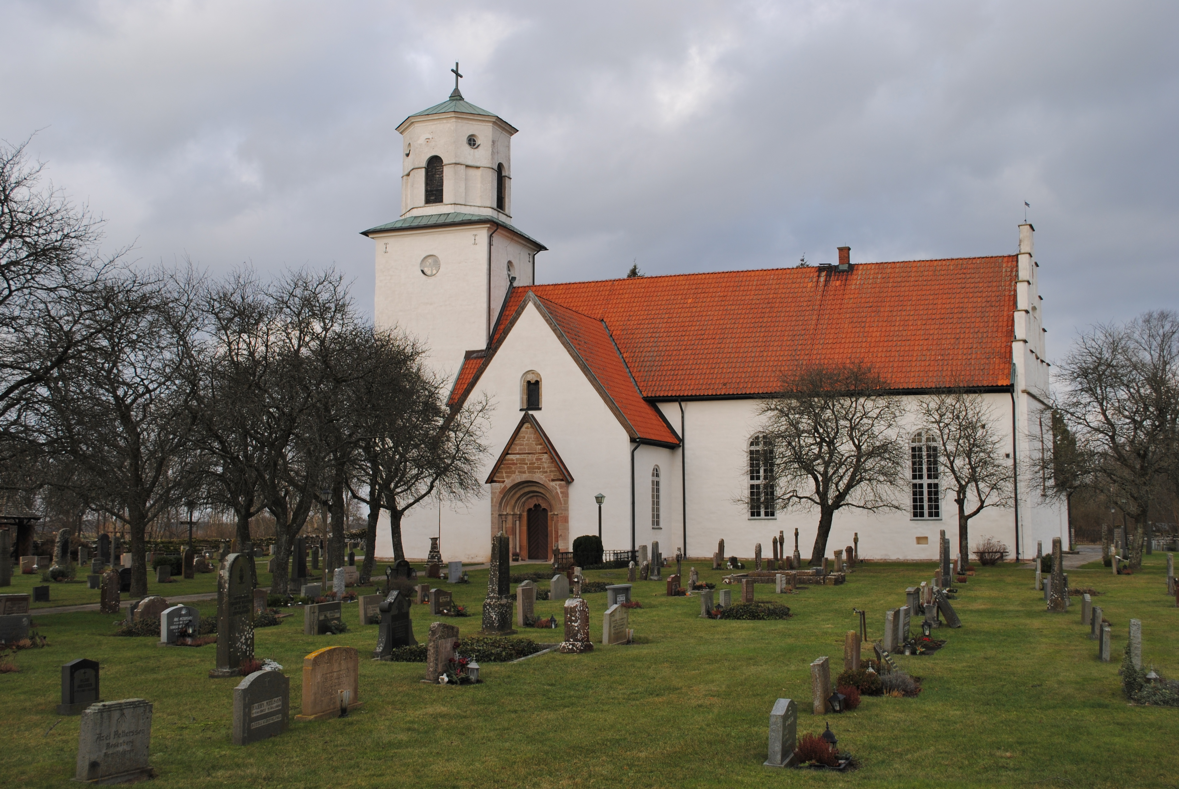 Gärdslösa The church is one of Öland's best preserved churches from the Middle Ages. The interior is characterized by crossroads slain 1240 with sculptured Gothic-style portals, as well as limestone paintings from the mid 1200s, 1498, 1570 and 1642.